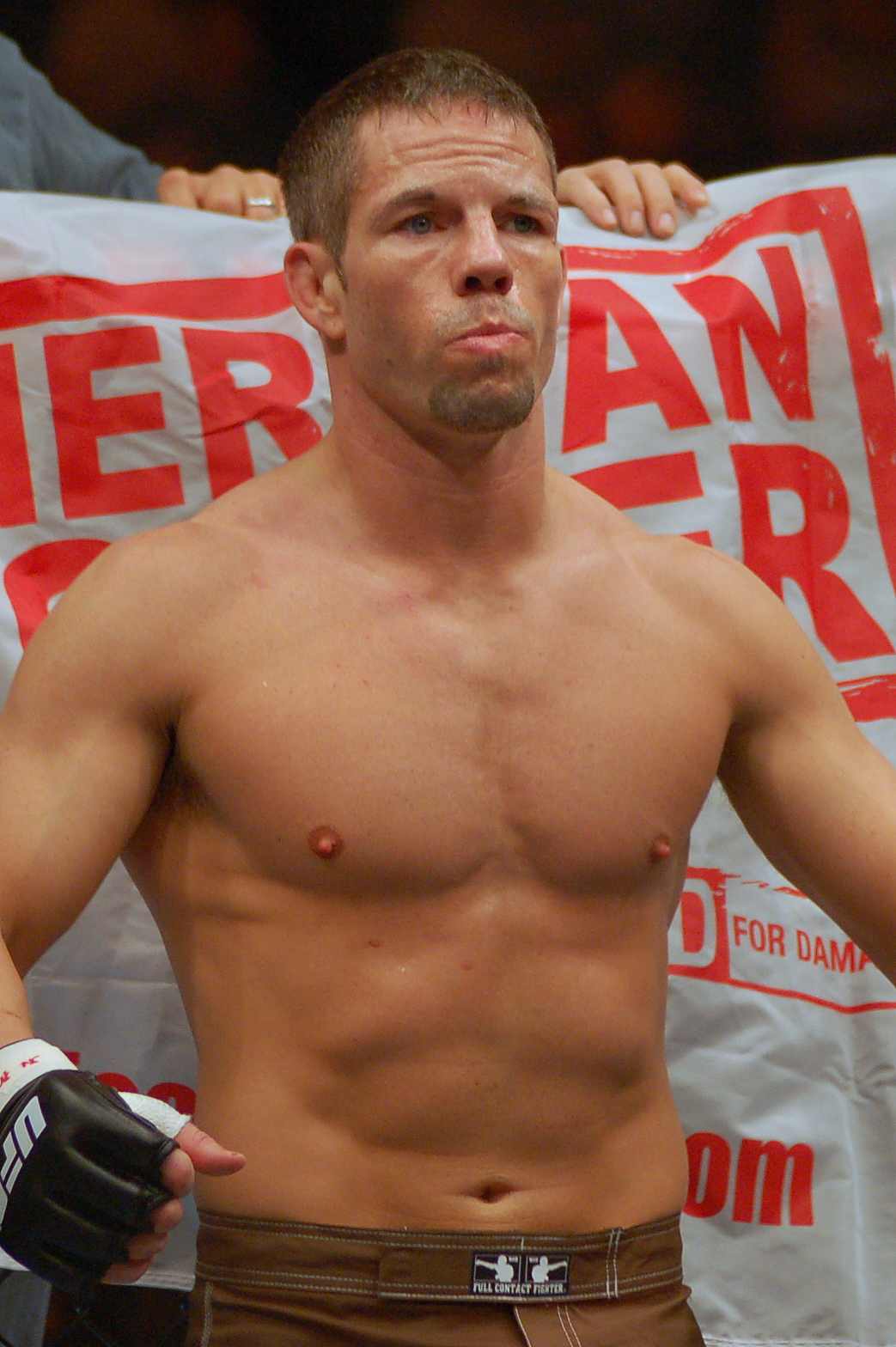 Marcus Davis at UFC 80